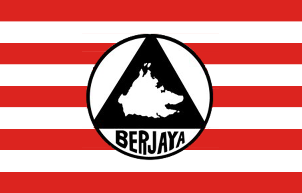 The flag of Sabah People's United Front.